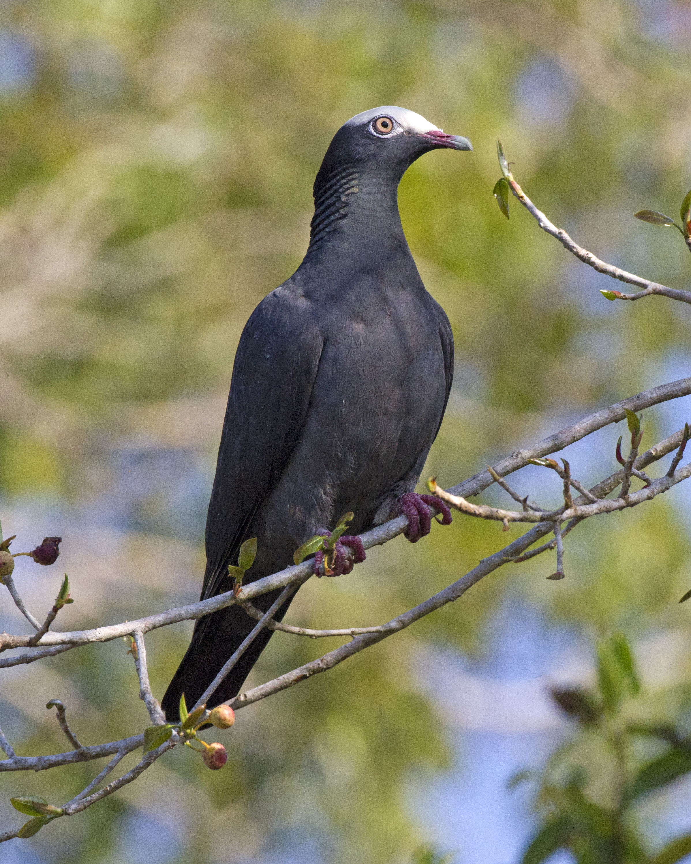 White-crowned Pigeon Patagioenas leucocephala Everglades, Florida USA 2nd. April 2012 aIMG_2119